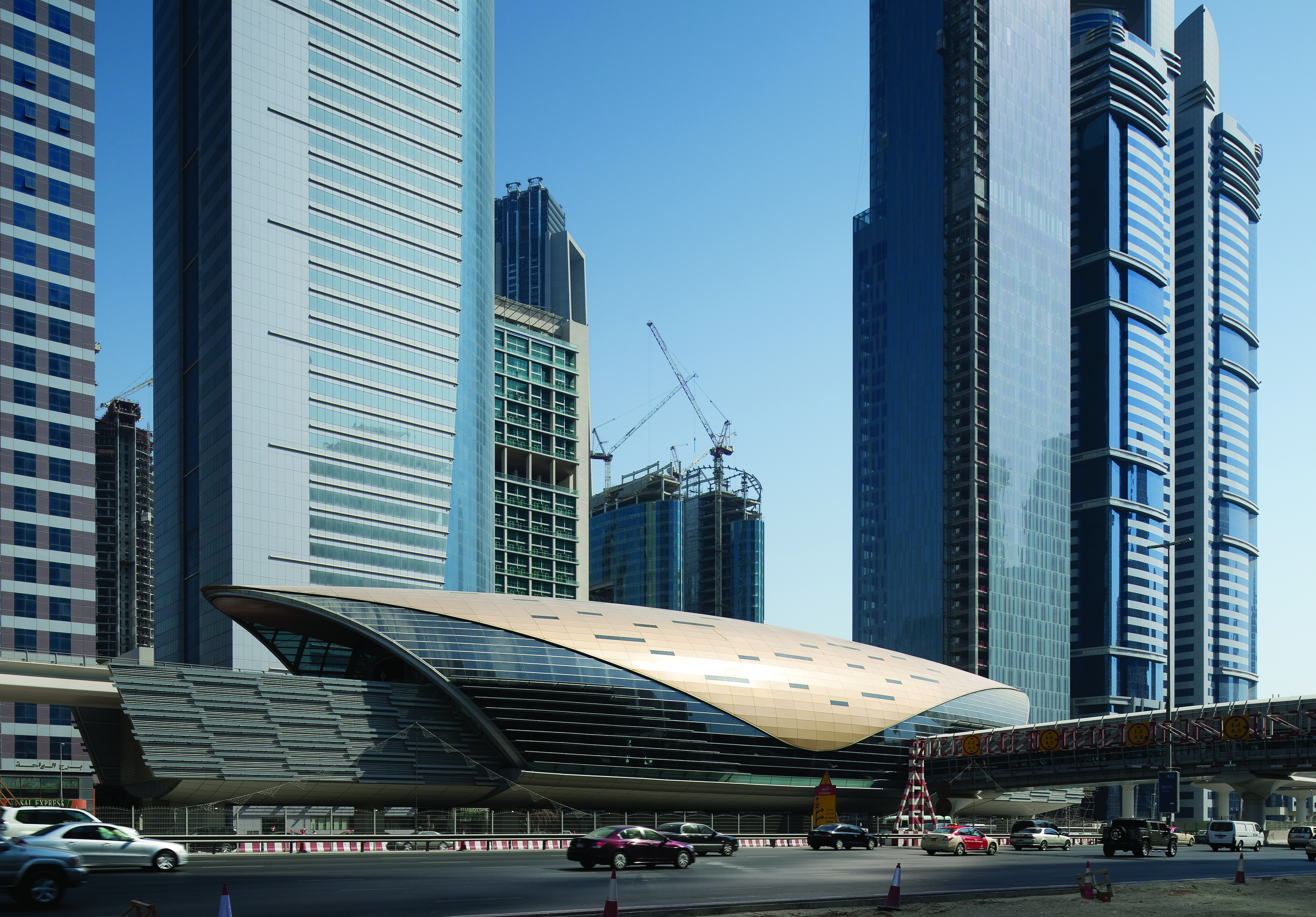 Dubai Metro Station exterior